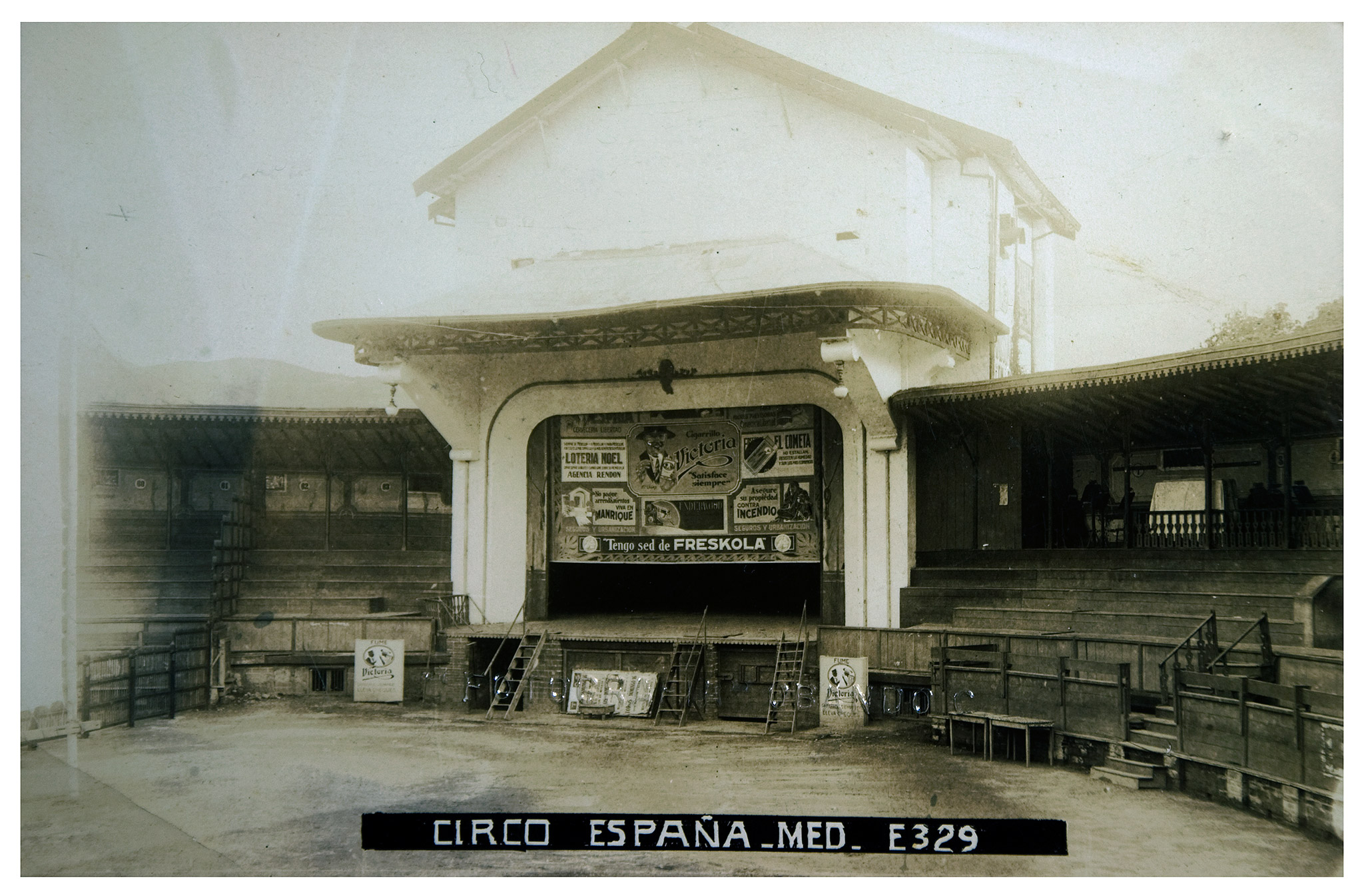 Circo España. Medellín, 1922 - interior